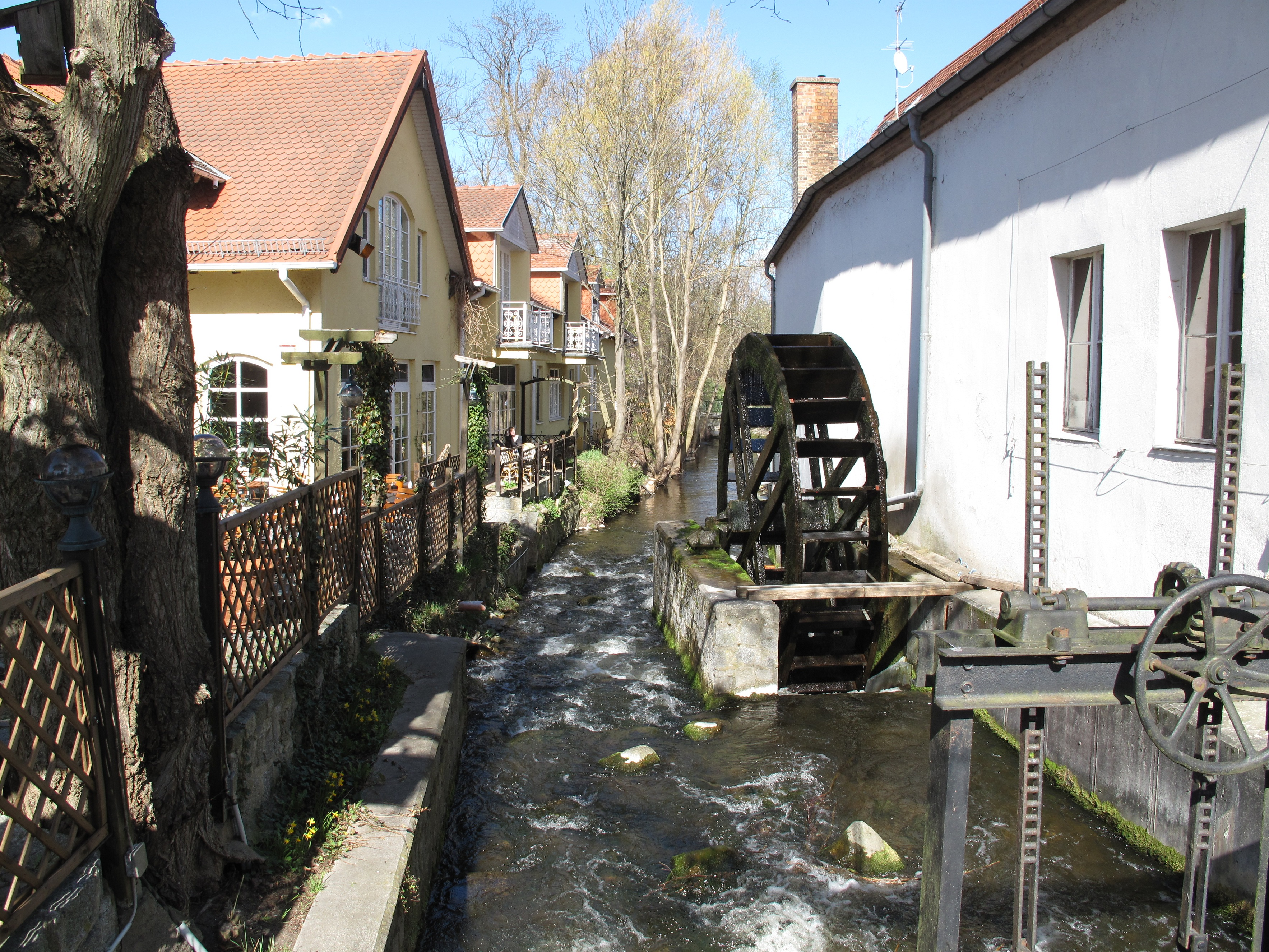 Former Stadtmühle (water mill) and Stobber in Buckow with Fish ladder, which was constructed in 1993. The Stobber (also called Stöbber) is the central river in the hill country „Märkische Schweiz“ and the Märkische Schweiz Nature Park, Brandenburg, Germany. The stream runs over a distance of 25 kilometers from the lowland moor and source area Rotes Luch towards the northeast through Buckow to the Oderbruch. The Stobber flows at Neuhardenberg to the „Friedländer Strom“, whose waters run over some canals to the Oder River → Baltic Sea. On a roughly 13 kilometer long route of its course there is designated the nature protection area „Naturschutzgebiet Stobbertal“.